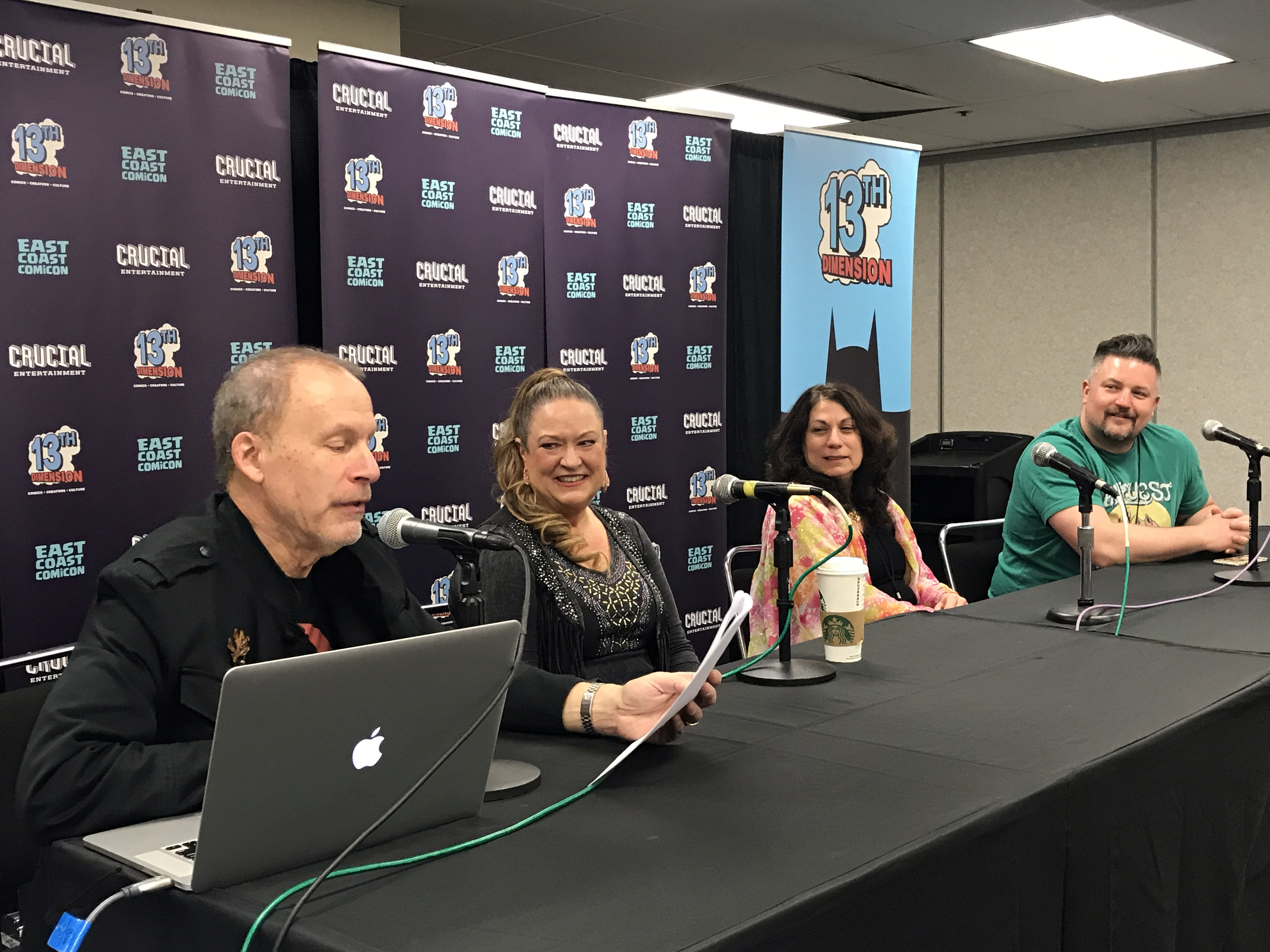 Panel discussion dedicated to the comics series Elfquest at the Meadowlands Exposition Center in Secaucus, New Jersey on Sunday, April 29, 2018, Day 3 of the East Coast Comicon. From left to right: Elfquest creators Richard Pini and Wendy Pini, Elfquest writer Joellyn Auklandus, and David Mizejewski, host of an Elfquest podcast. This photo was created by Luigi Novi. It is not in the public domain, and use of this file outside of the licensing terms is a copyright violation.